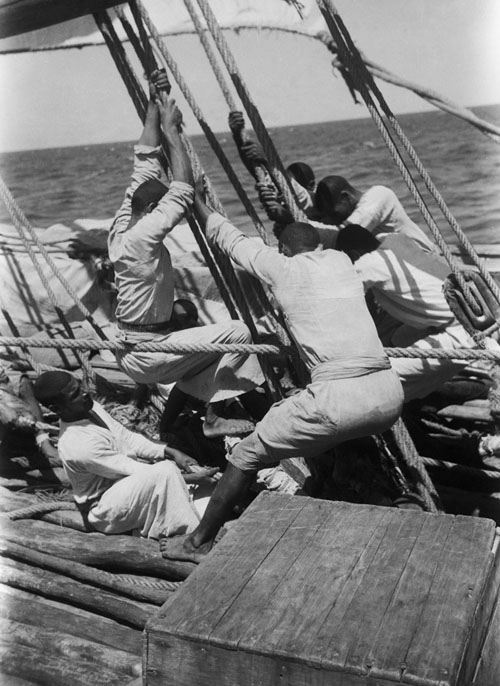 Sailors working on a deck covered in mangrove poles. Reproduction ID: N83097Maker: Alan VilliersVilliers collection (Alan Villiers' photographs of his voyages aboard Arabian dhows (1938-39))